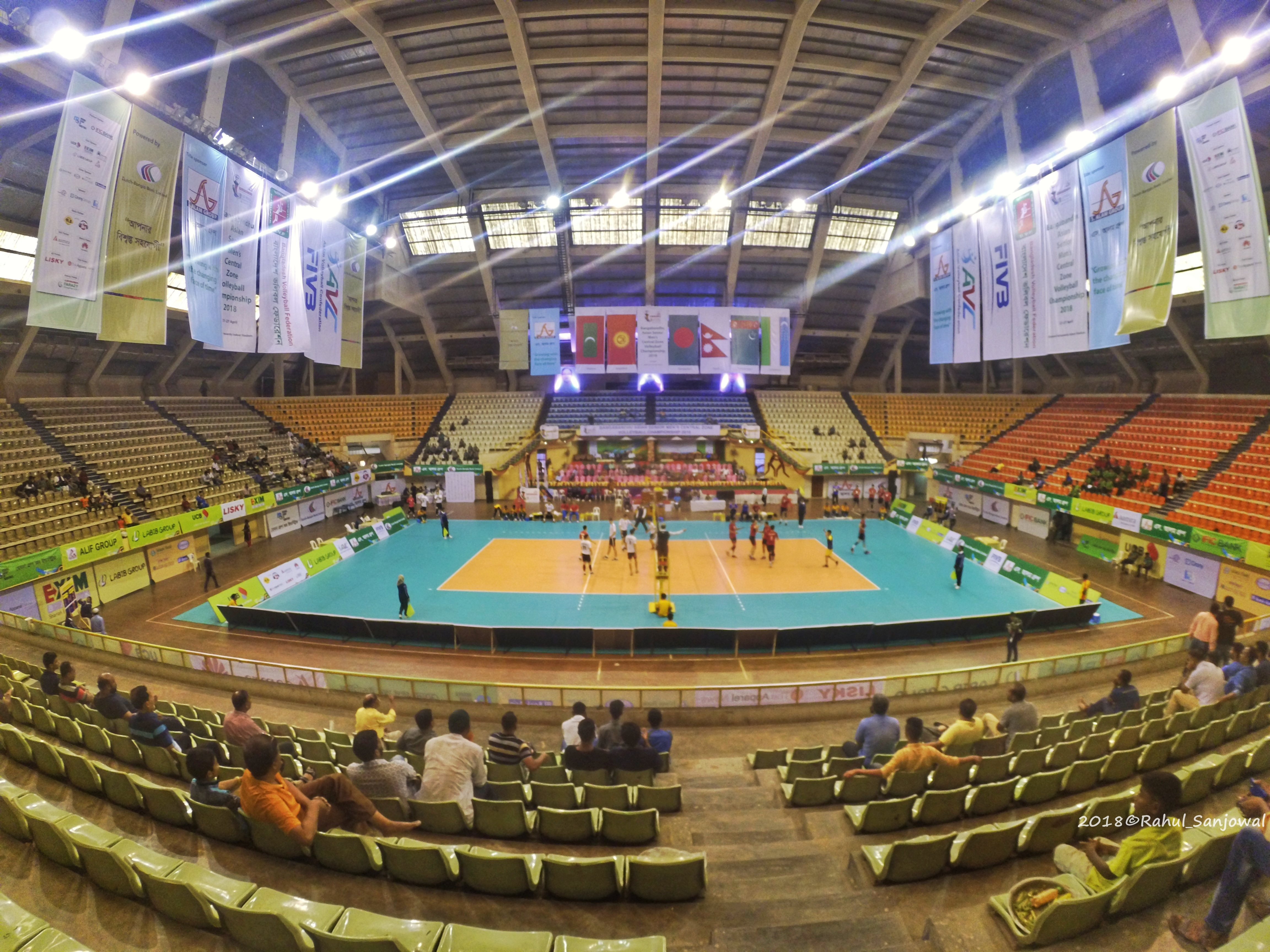 Inside of Mirpur Stadium which also known as Shaheed Sohrawardi Indoor Stadium.